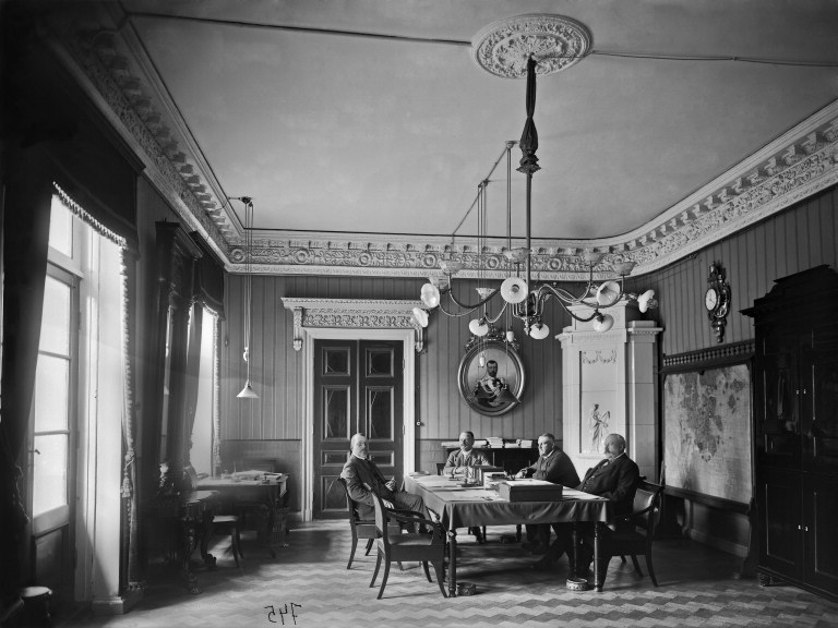 The panel of the magistrate in Helsinki, Finland, year 1912